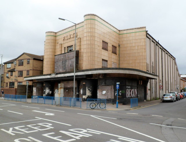 SE side of Grade II listed former Plaza Cinema, Port Talbot